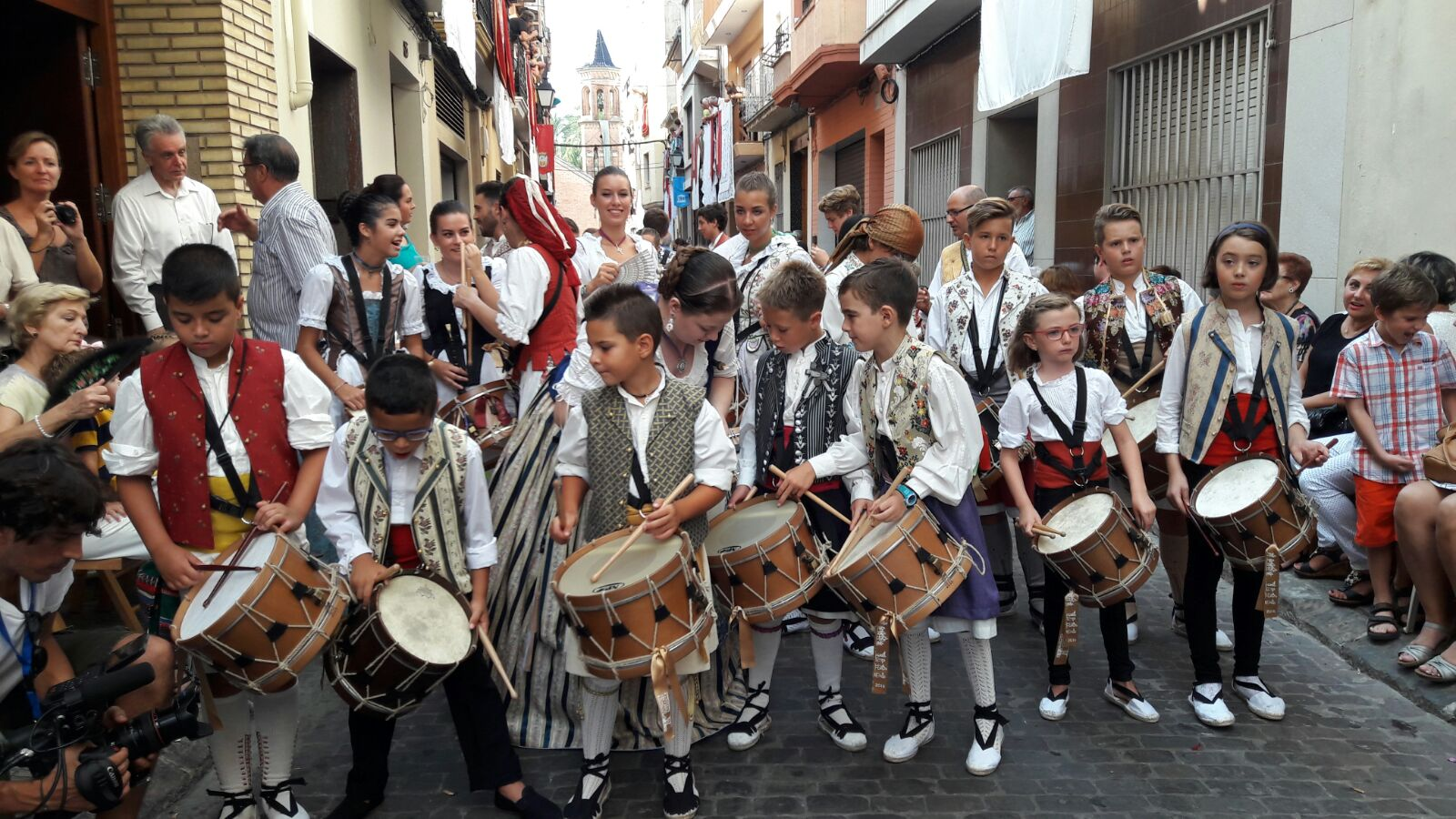 Mare de Déu de la Salut. La Mare de Déu de la Salut Festival is celebrated in September 8, in Alegemesi, Spain and commemorates the legendary discovery in 1247 of a statue depicting the Madonna and Child.